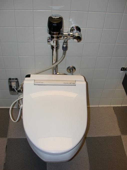 Google's toilet: "Super" toilet at Google's Corp HQ.